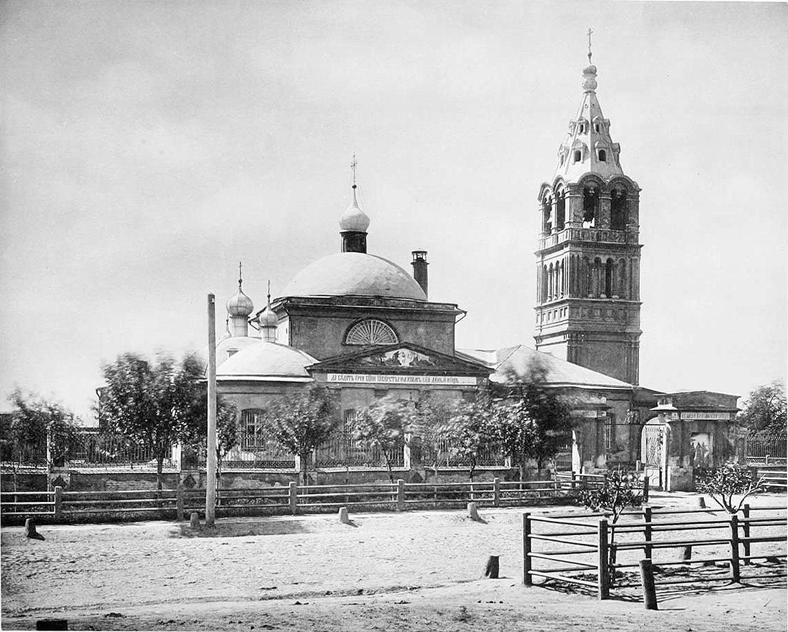 Church of Epiphany in Dorogomilovo, Moscow.